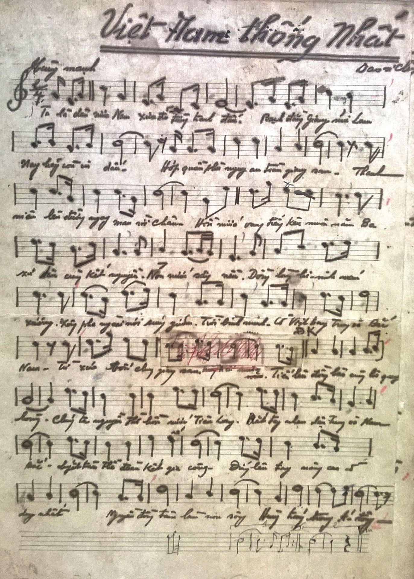 Viêt Nam Unification